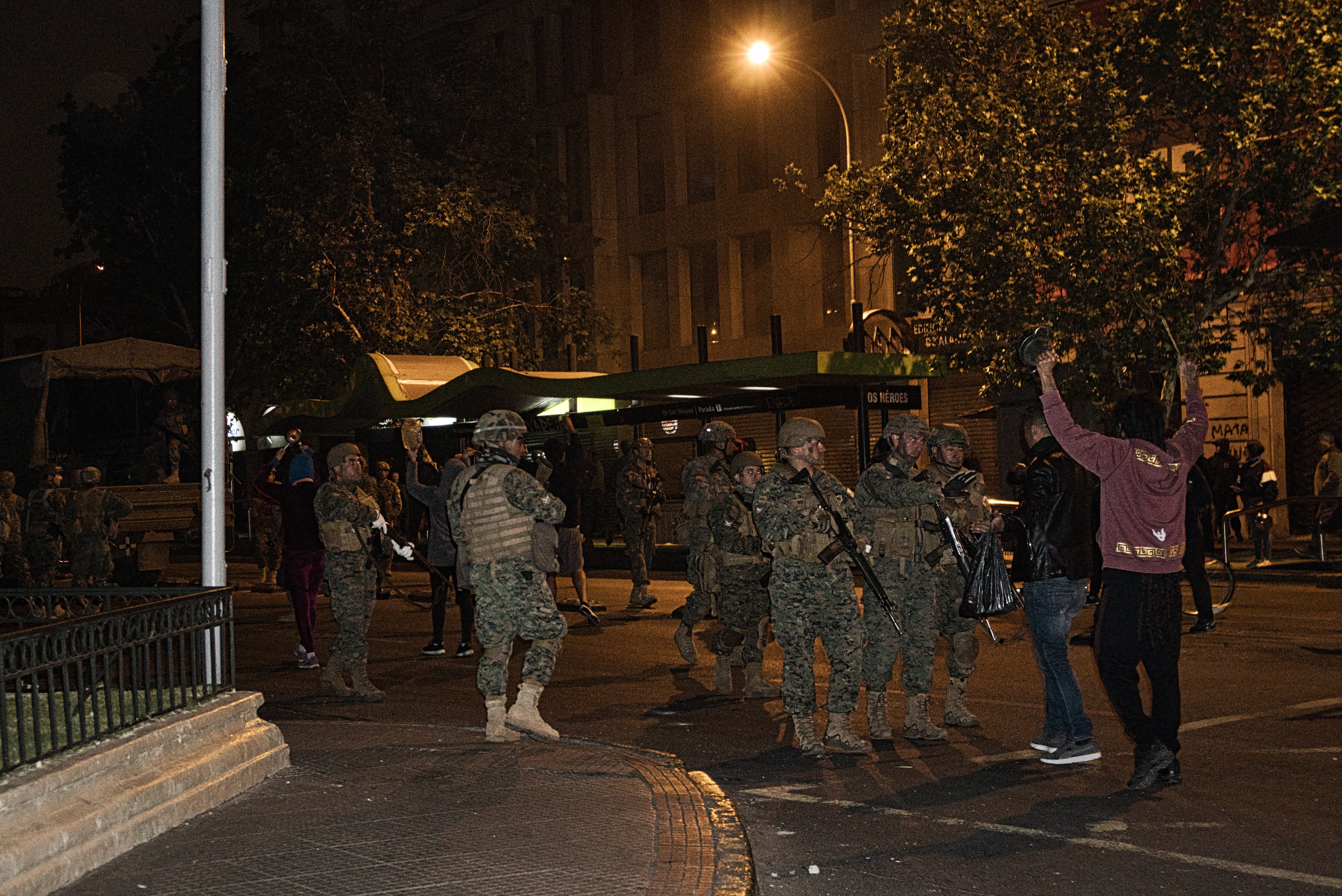 Inicio del toque de queda durante las protestas en Santiago.